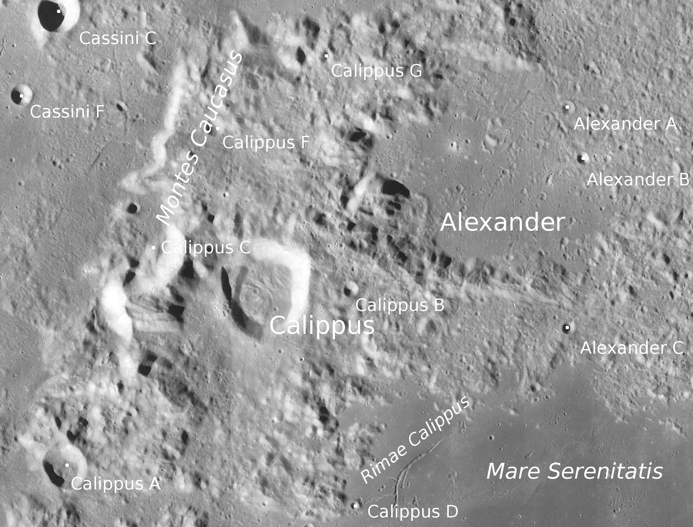 Craters Calippus and Alexander with satellite features (detail of LRO - WAC global moon mosaic; Mercator projection)